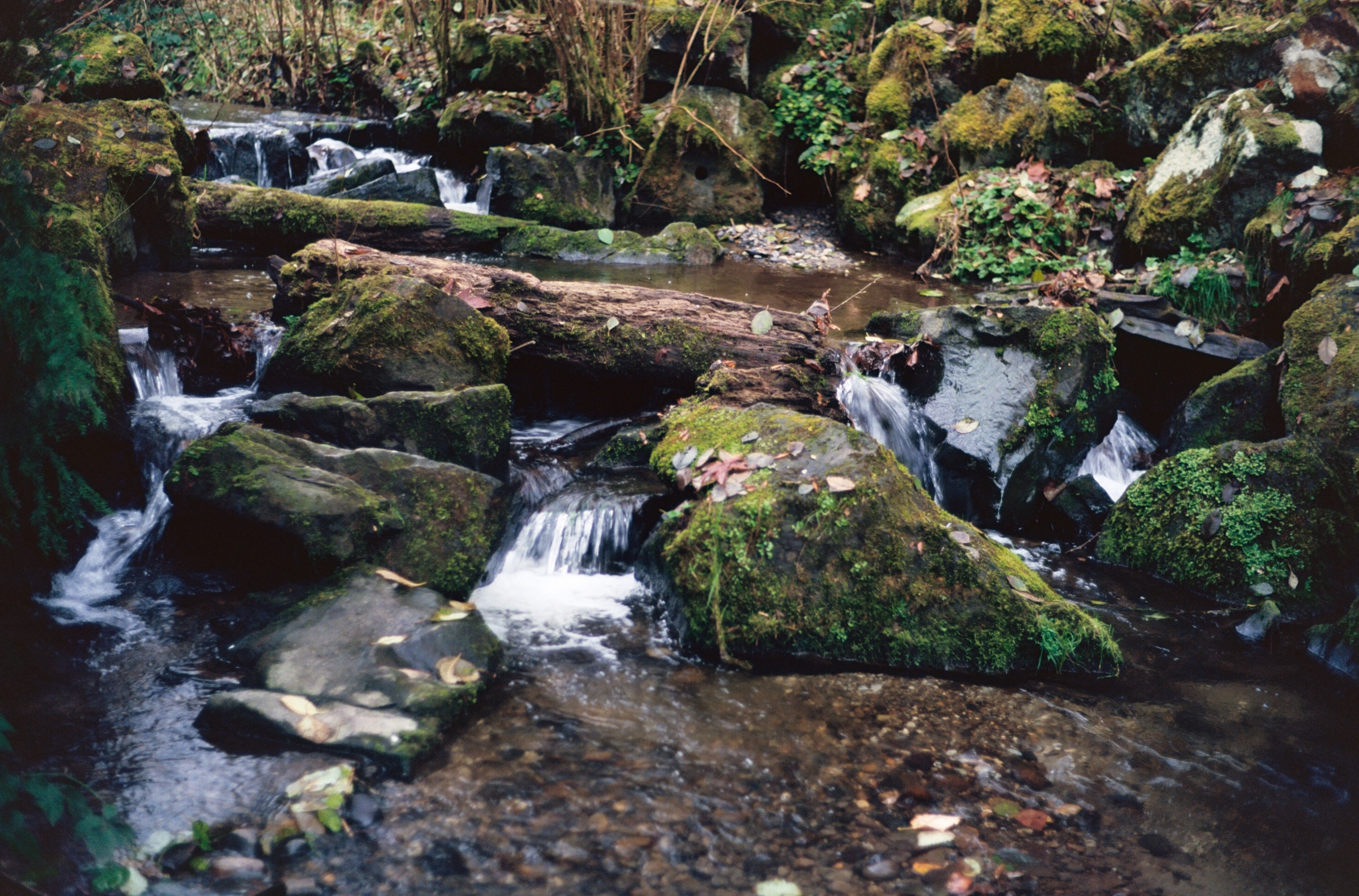 Falls at Pipers Creek, Seattle, Washington.